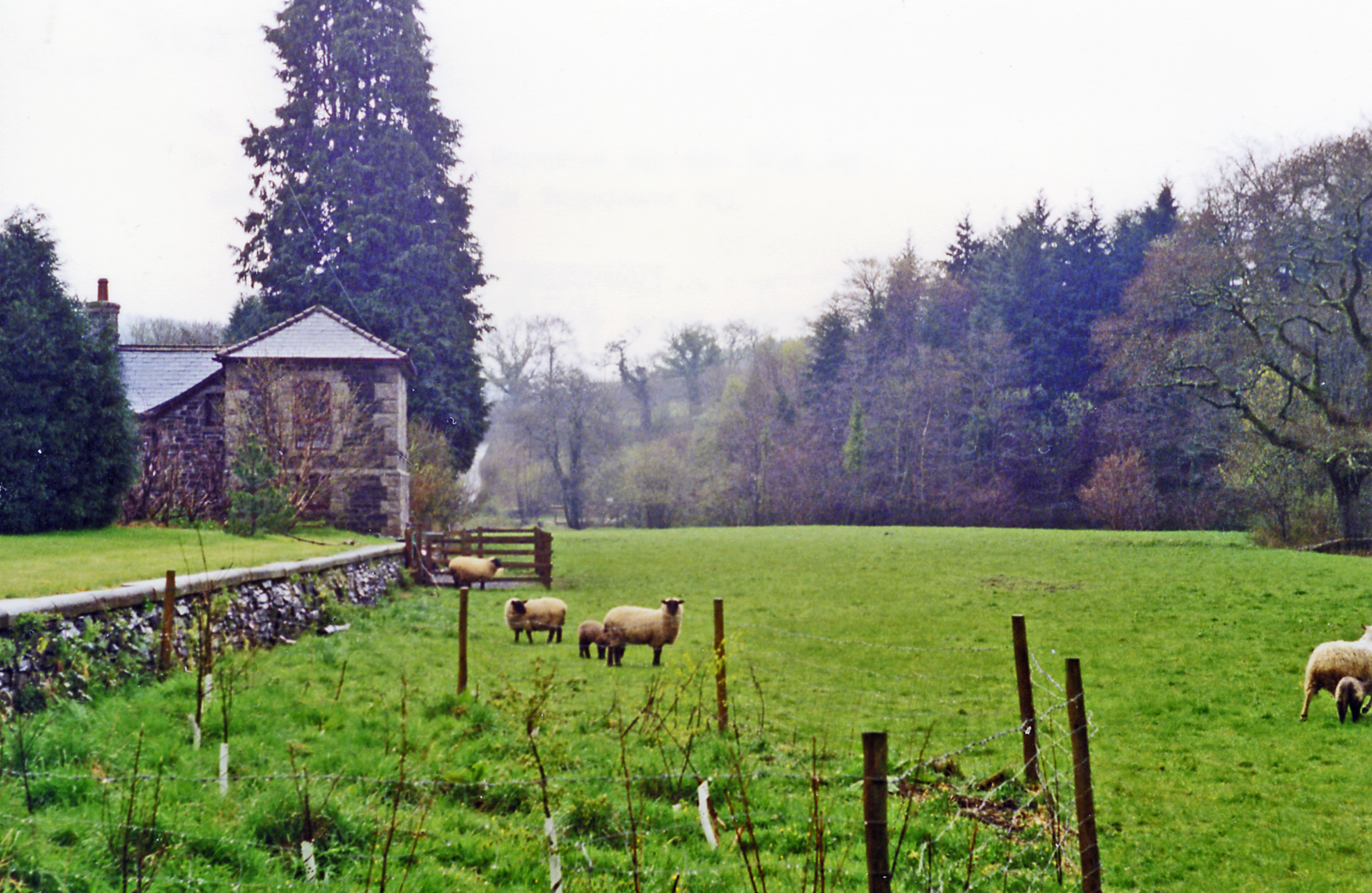 Remains of Gara Bridge station, 1995. View southward in Devon Avon Valley, towards Kingsbridge: ex-GWR Brent - Kingsbridge branch. Closed entirely withe the whole branch from 16/9/63, the station buildings and single platform have survived. An idyllic scene?